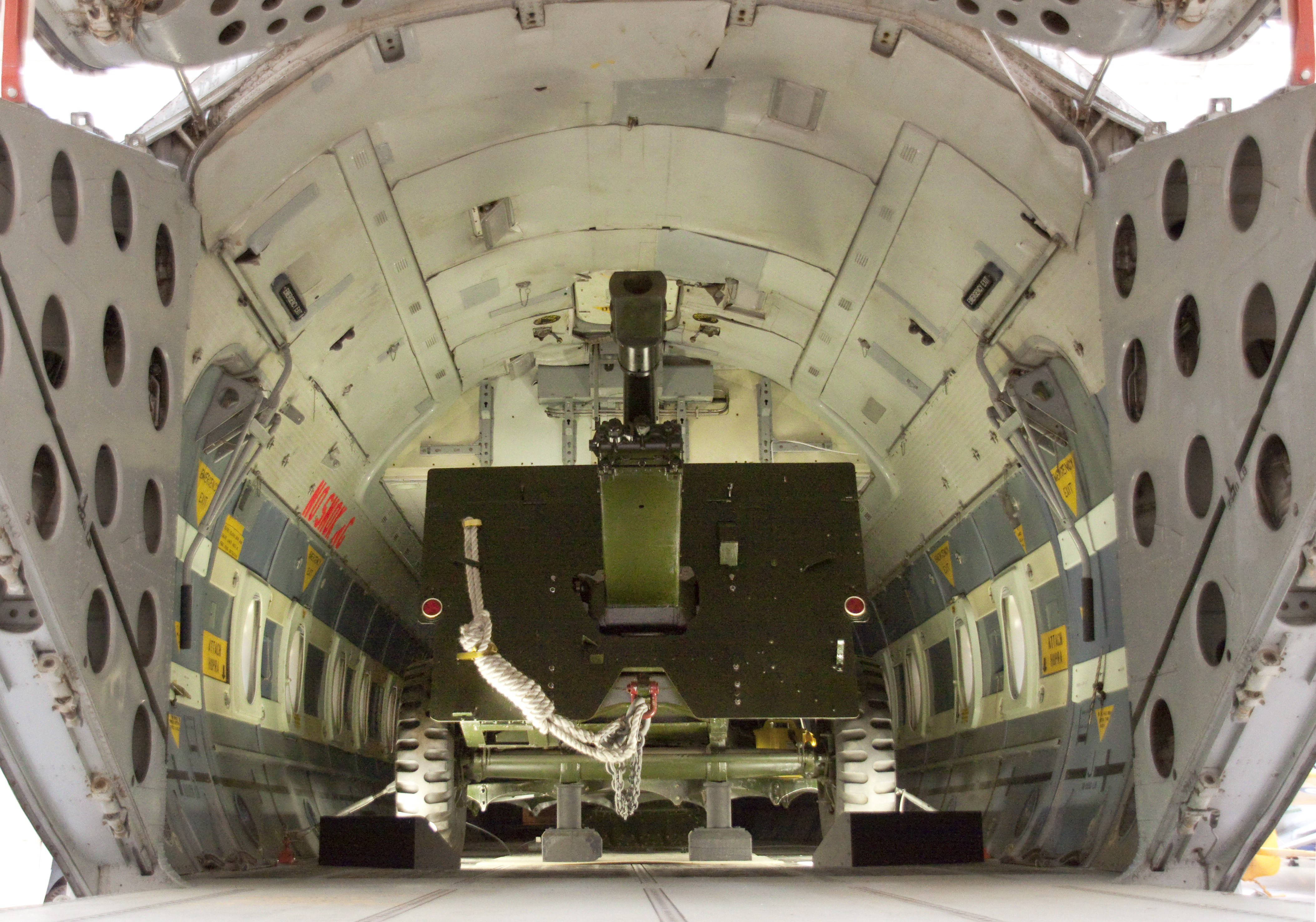 Argosy with 25pounder